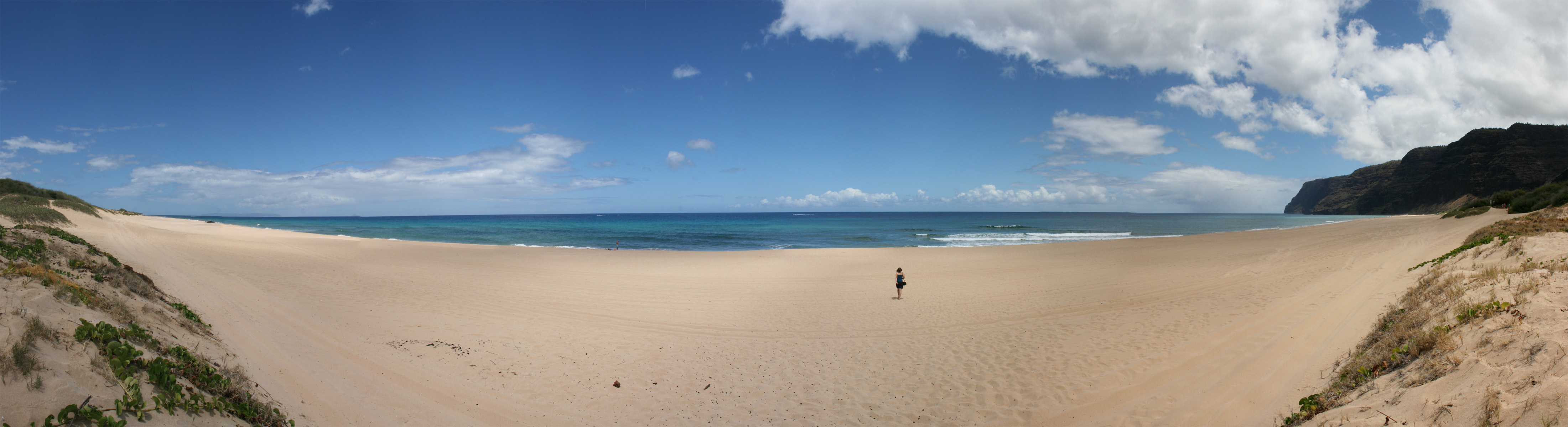 A panorama (roughly 180°) of Barking Sands beach, which is on the West shore on the island of Kaua'i in Hawai'i. This was taken from the East end of the bay. This image was stitched together using multiple photographs, cropped, and resized. Otherwise it is in its original state. (the sources were poor, so obvious glitches can be seen. A picture is better than no picture)